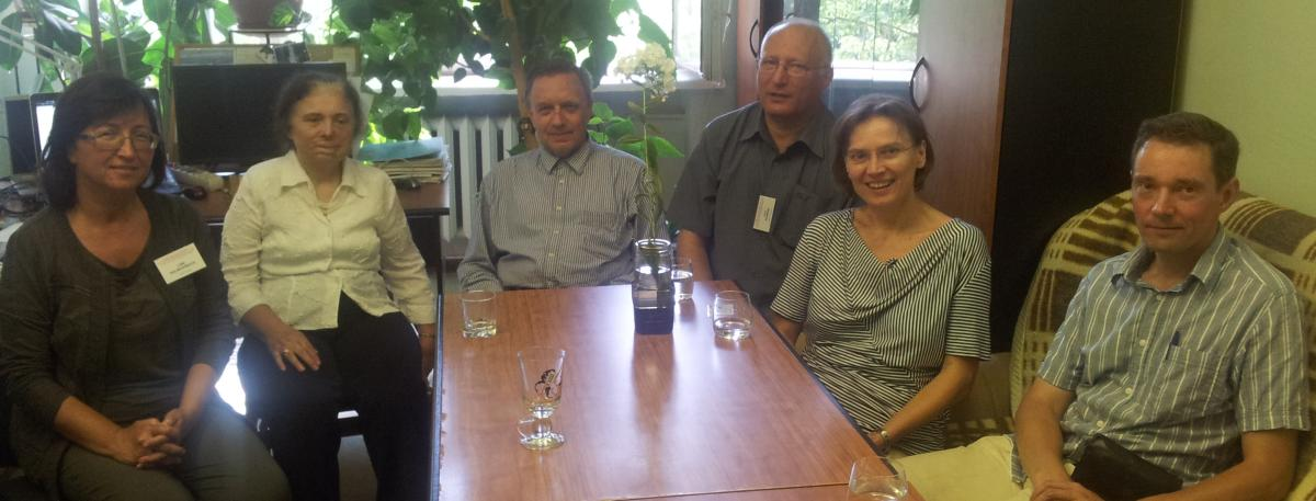 ZFITTER main authors, July 2012: From left to right: Lida Kalinovskaya, Pena Christova, Dima Bardin, Tord Riemann, Sabine Riemann, Andrej Arbuzov (not shown: Arif Akhundov, Sasha Olshevsky) Photograph made on occasion of 5th Helmholtz International Summer School "Calculations for Modern and Future Colliders", July 23 - August 2, 2012, Dubna, Russia, CALC 2012